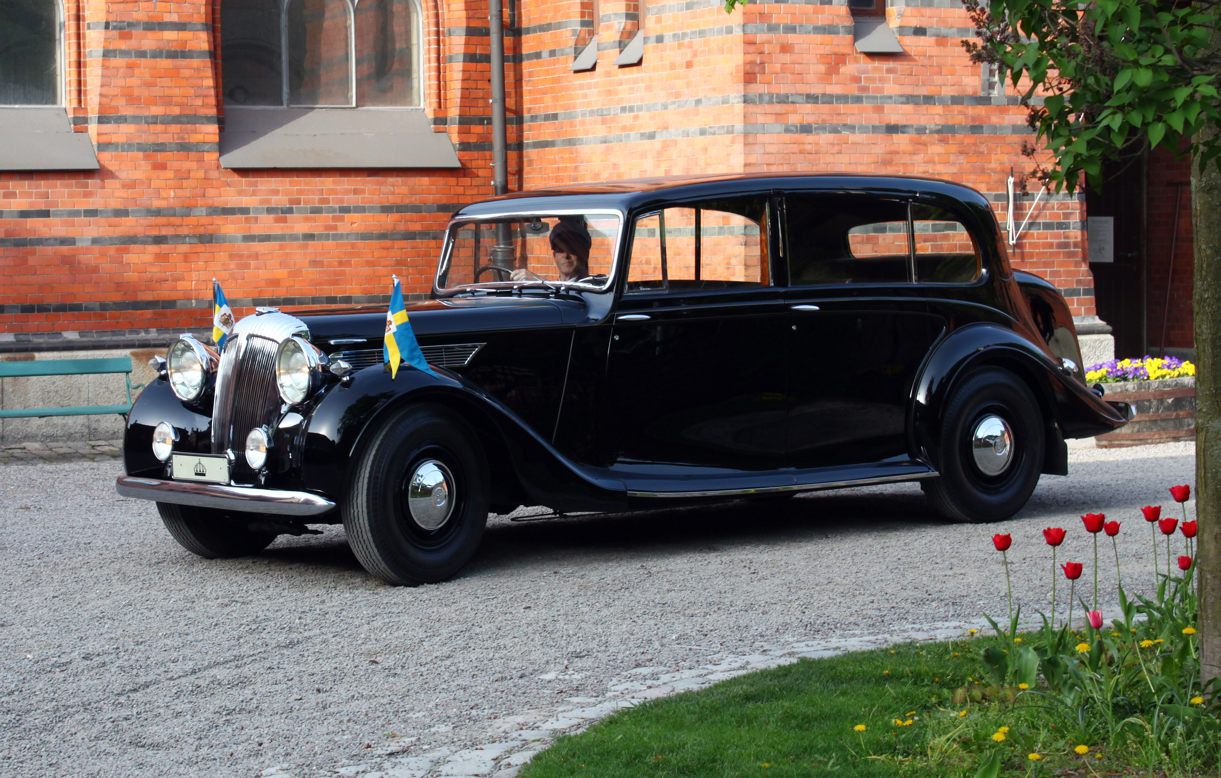 Daimler 1950 used by the King of Sweden.